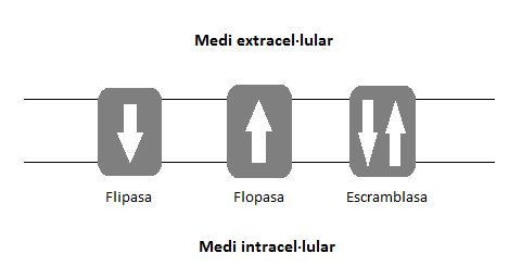 Moviment dels fosfolípids dut a terme per les flipases, les flopases i les escramblases.